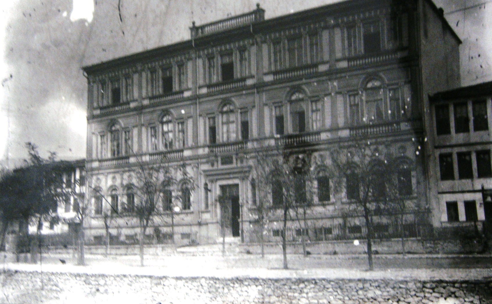 View the building of the Romanian high school in Bitola, 1898-1912 This media file is produced by Wikipedian in Residence in Category:Wikipedian in Residence at DARM in 2016.